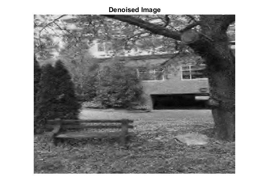 Image with removed Gaussian noise after wavelet 2D filter.